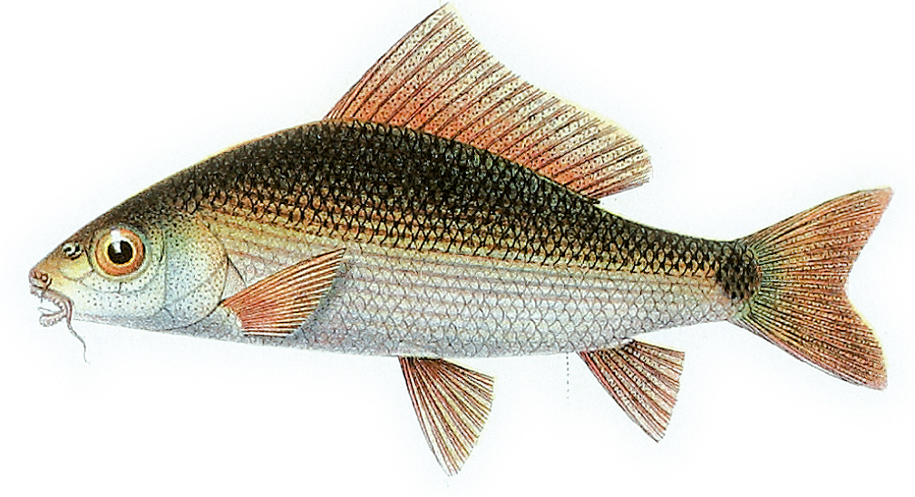 Osteochilus borneensis, described in the original publication as Rohita (Rohita) borneënsis